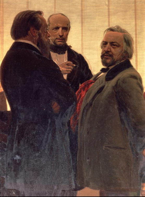 Category:Paintings by Ilya Yefimovich Repin